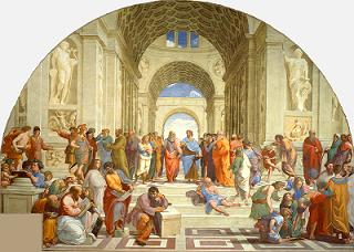 La escuela de Atenas_REP